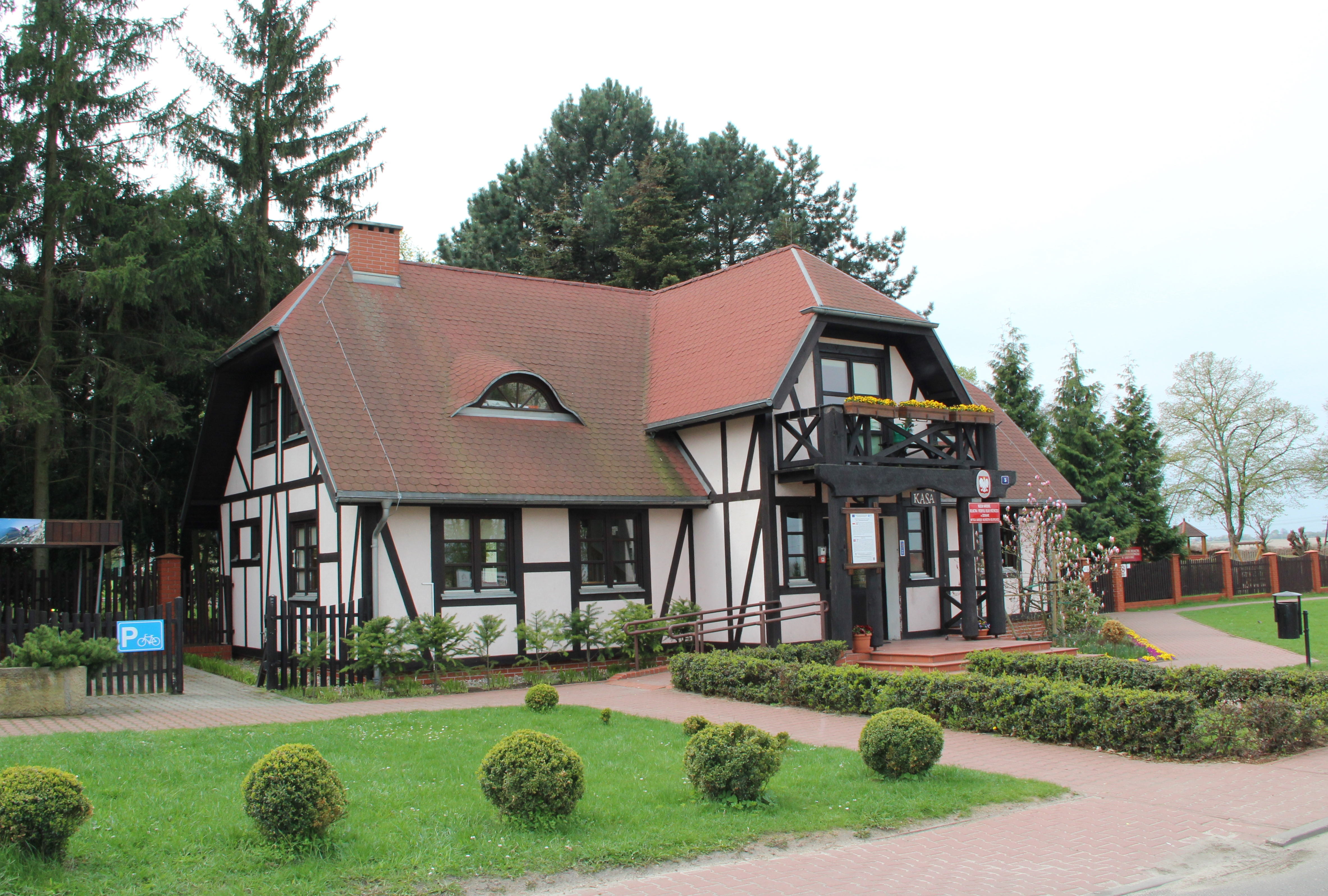 National Museum of Agriculture in Szreniawa